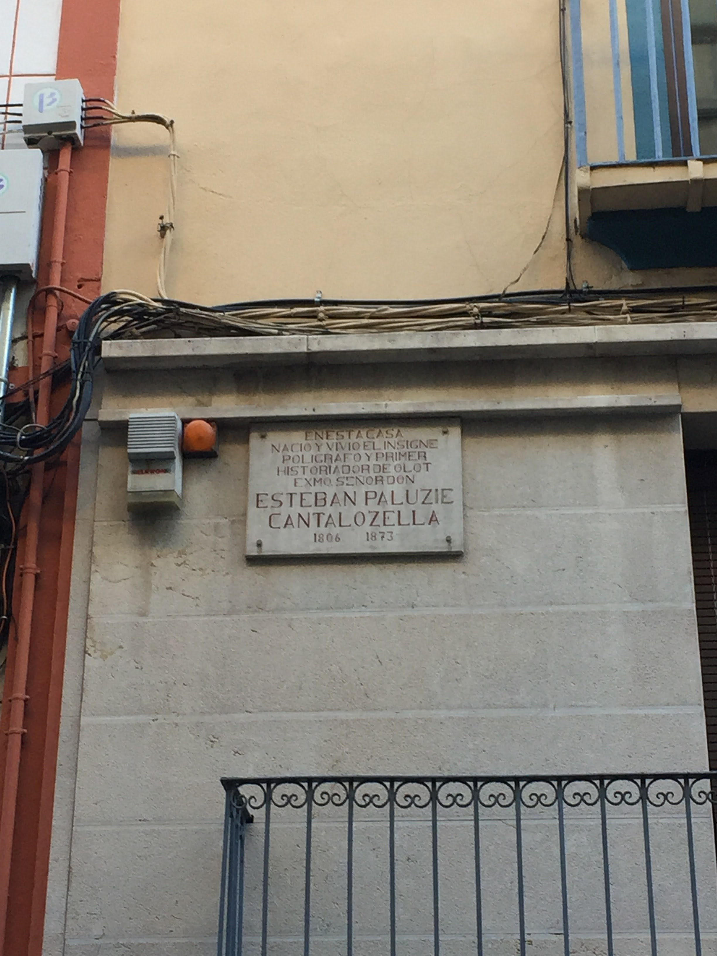 Esteve Paluzie Plaque in Olot